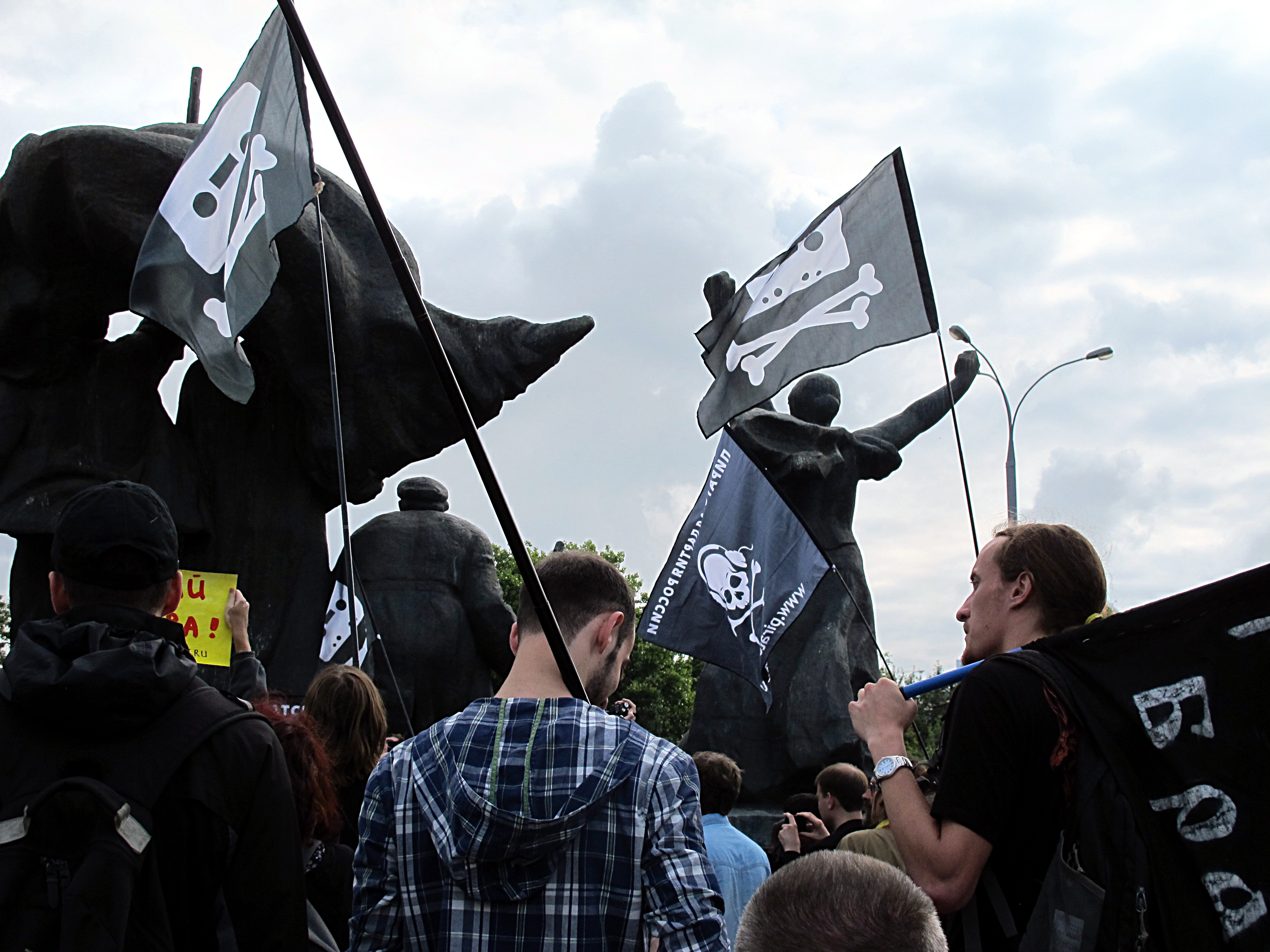 The rally-concert "For Free Internet" in Moscow July 28, 2013.